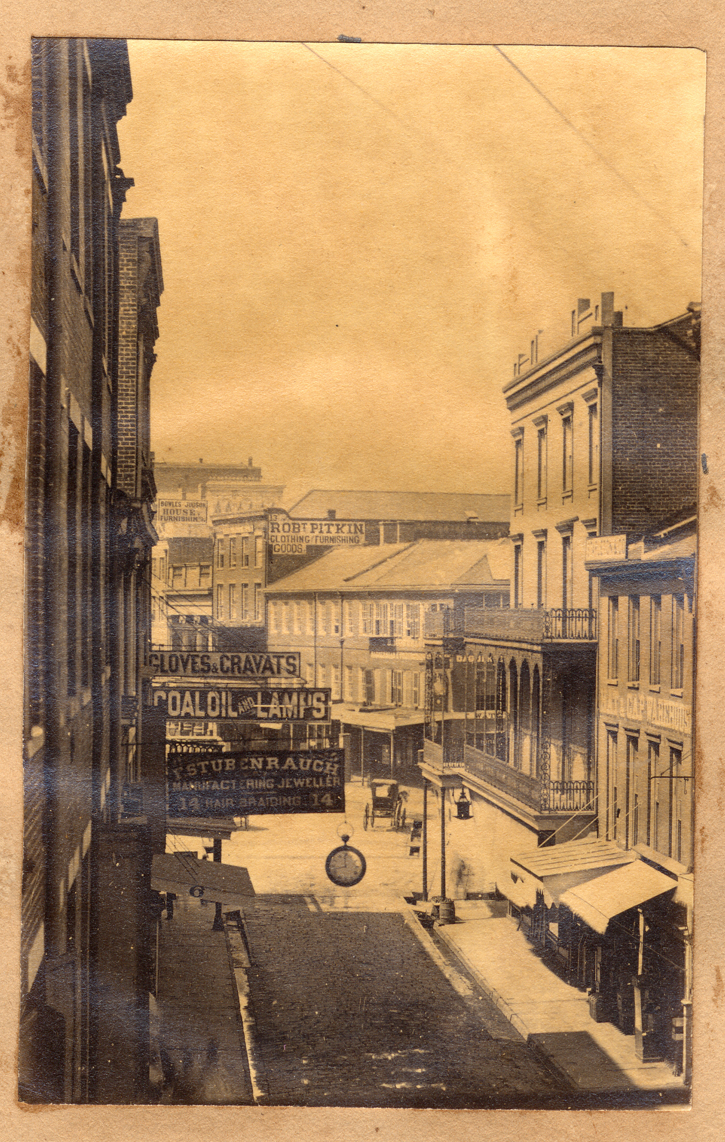 Camp Street, New Orleans Central Business District, 1860s Albumen print photograph.